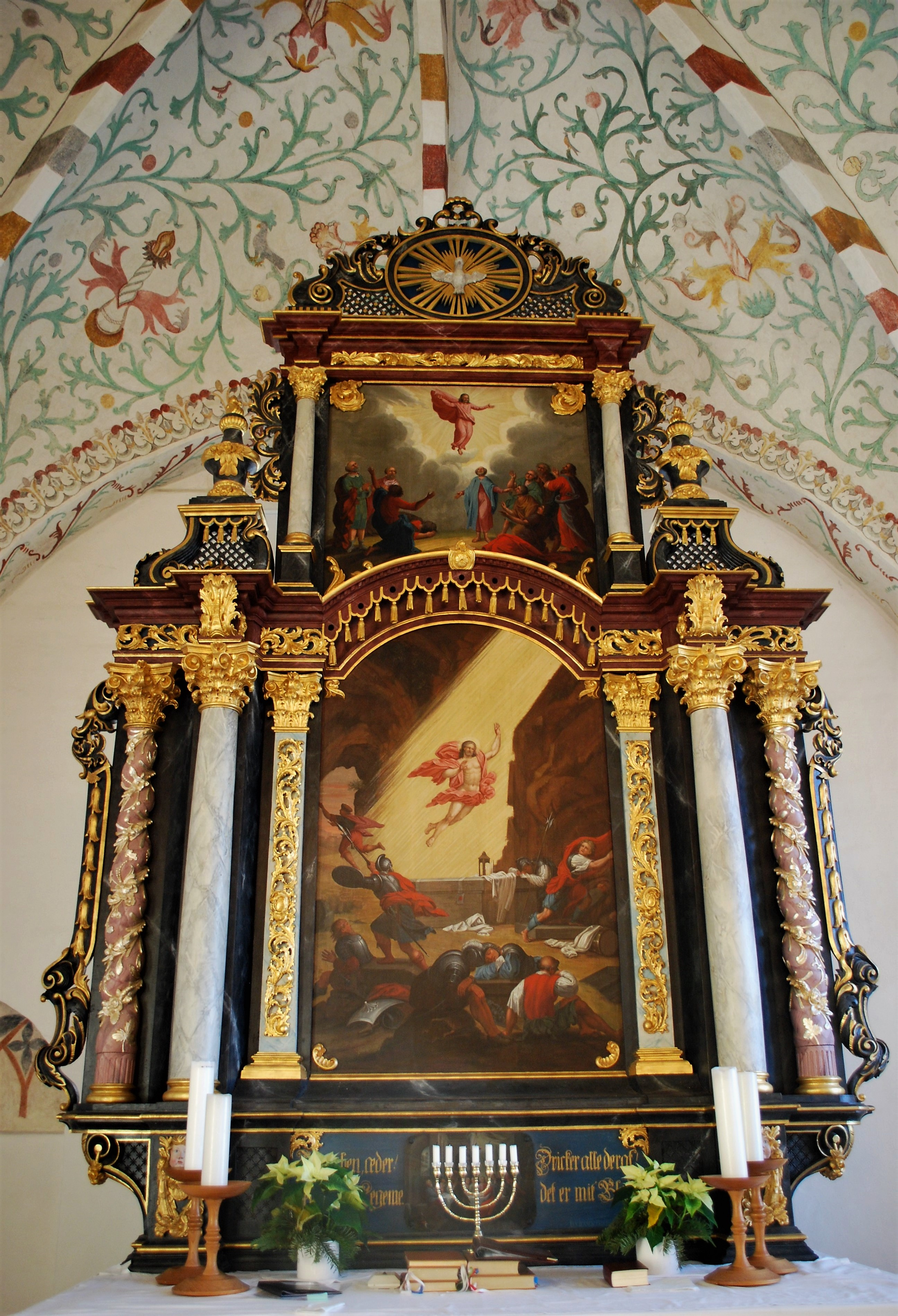 The Altar in Sottrup Kirke, Denmark